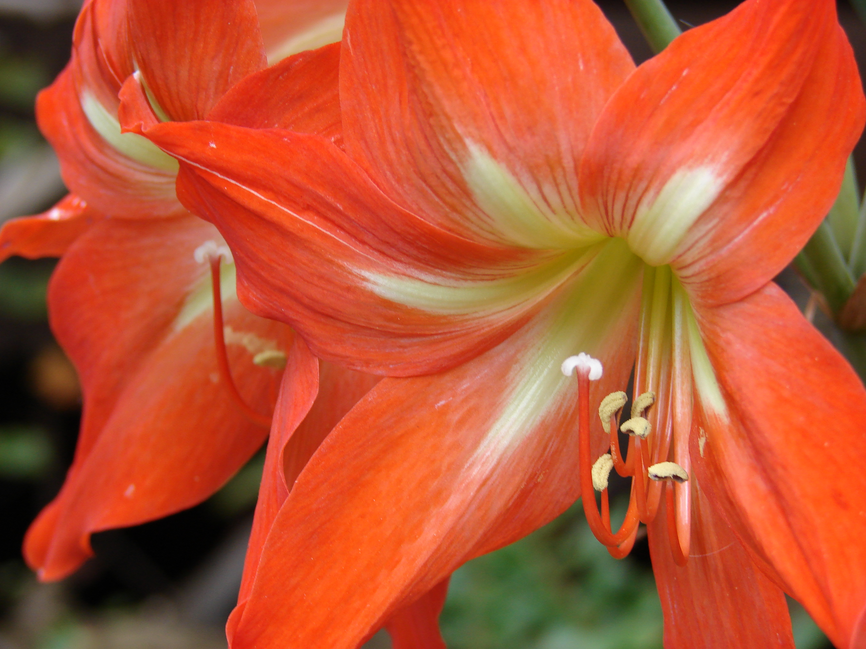 Hippeastrum striatum (flowers). Location: Maui, Makawao